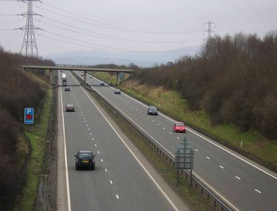 A5 Dual Carriageway